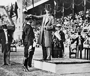 Gösta Lilliehöök receives a laurel wreat from king Gustav V of Sweden at the 1912 Summer Olympics in Stockholm.